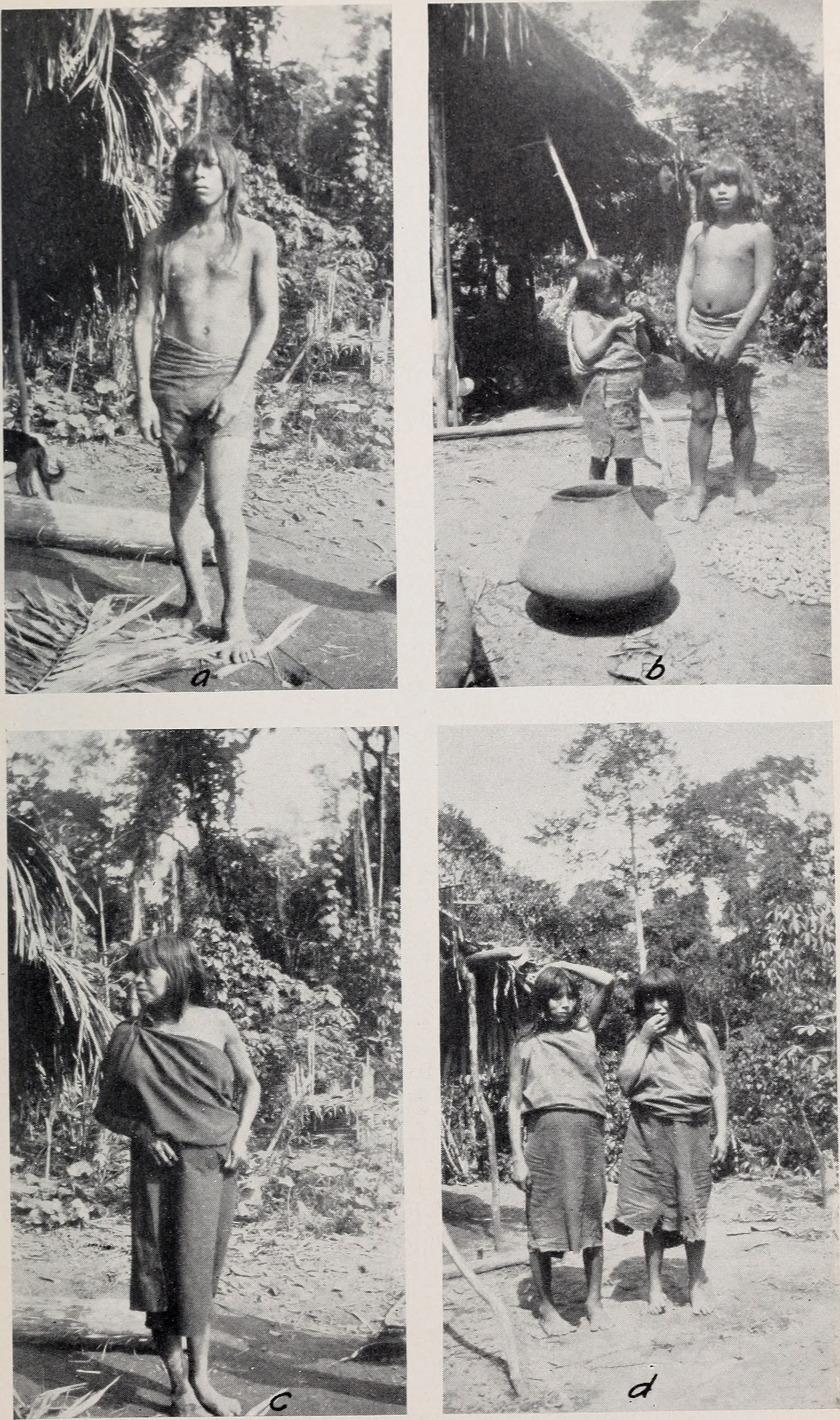 Title: Bulletin Year: 1901 (1900s) Authors: Smithsonian Institution. Bureau of American Ethnology Subjects: Ethnology Publisher: Washington : G. P. O. Text Appearing Before Image: 5UREAU OF AMERICAN ETHNOLOGY BULLETIN 117 PLATE 19 Text Appearing After Image: JIVAROS ON THE ALTO MARANON. a, b, d, Wearing clothing made of bark cloth.